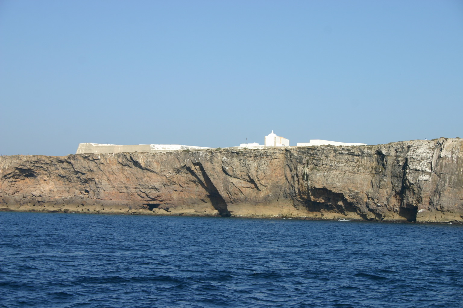 Autor: António ML Cabral Esta foto pode ser usada para qualquer tipo de utilização com a condição de ser indicado o nome do autor. This picture can be used for all kinds of usage with the condition of the author's name to be indicated.